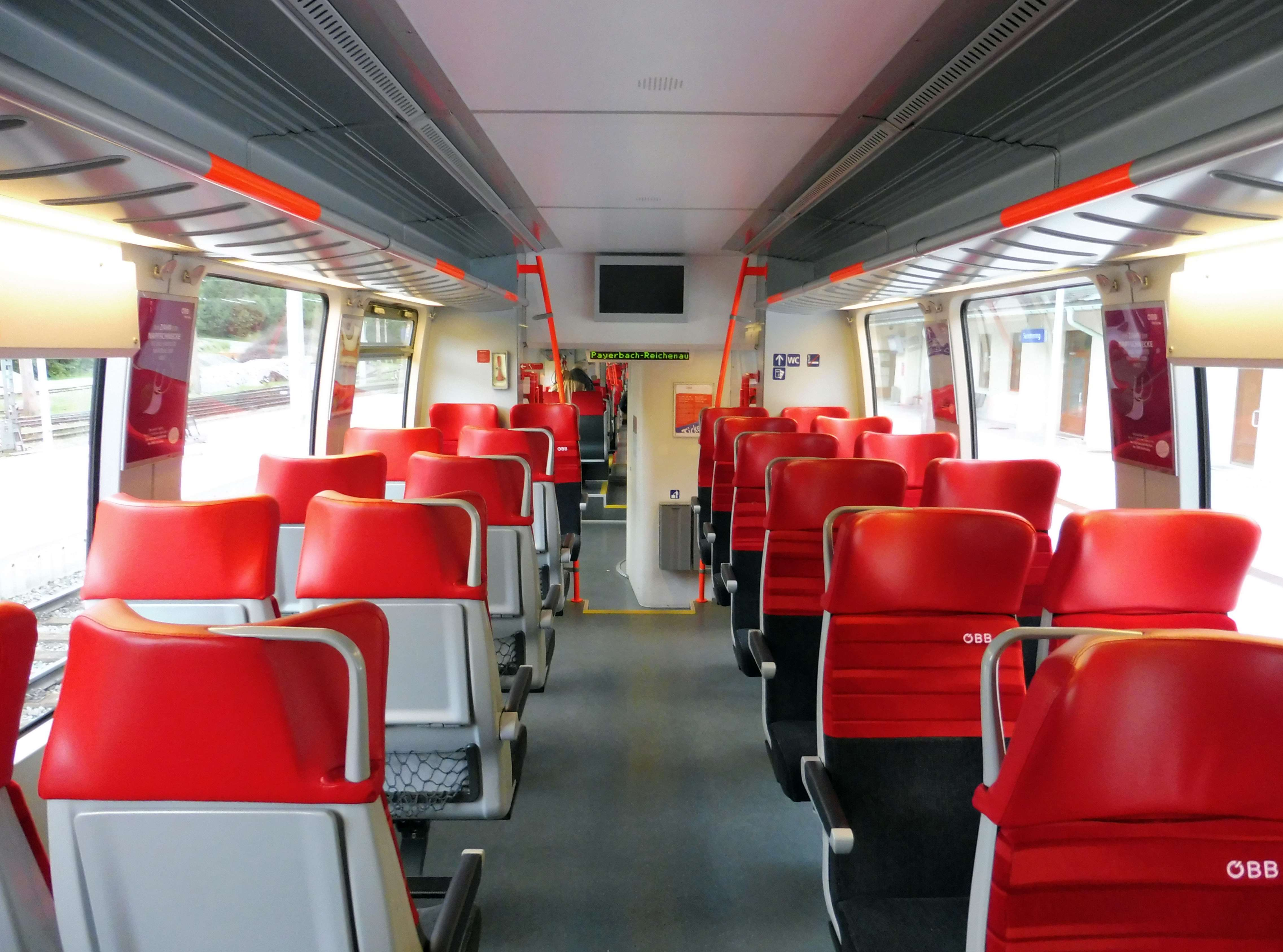 Interior of A-ÖBB 94 81 4023 011-1, "comfort zone" after modernization in cityjet design